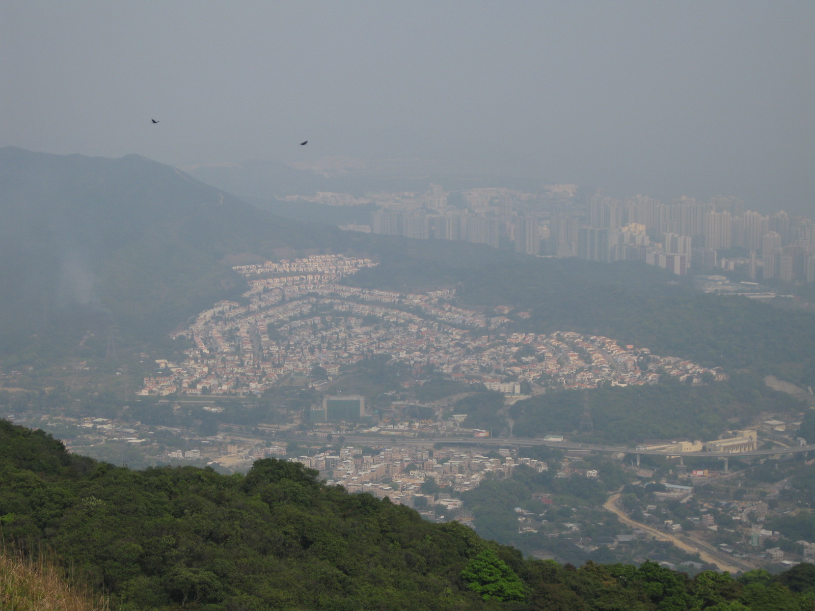 Hong Lok Yuen overview